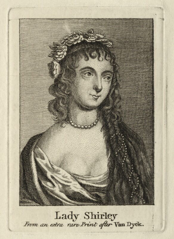 Etching of Teresia, Lady Shirley, Possibly late 18th century, after Sir Anthony van Dyck. 4 1/4 in. x 3 in. (108 mm x 75 mm) plate size. Given by the daughter of compiler William Fleming MD, Mary Elizabeth Stopford (née Fleming), 1931.